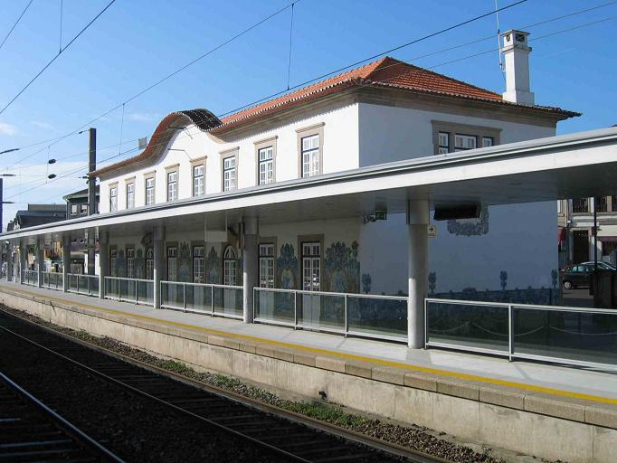 Train station of Rio Tinto - Portugal